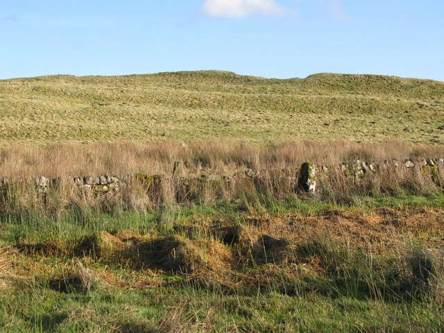 Standing stone at Coventina's Well. See also 1129249.